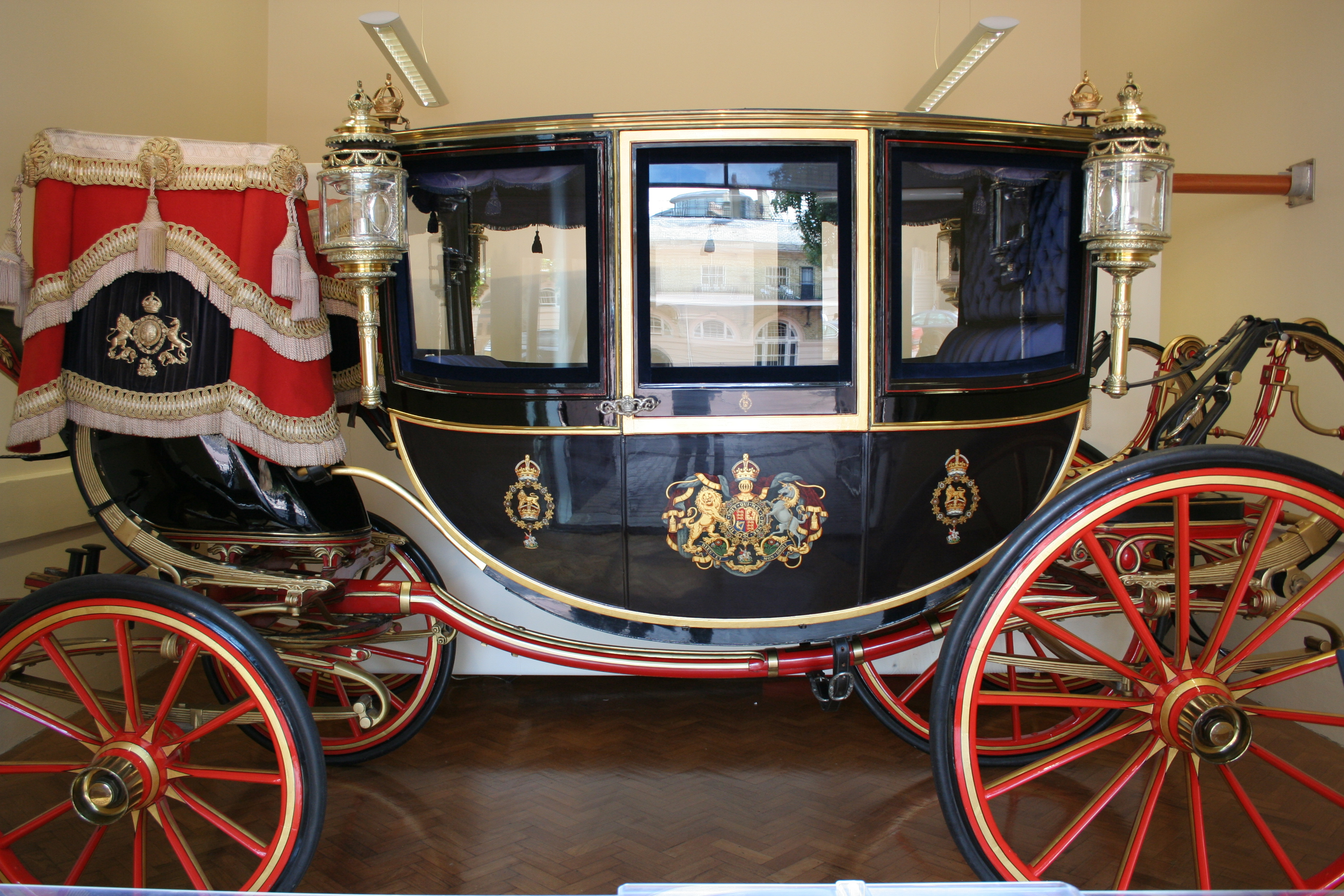 The Glass Coach used by Princess Diana on the way to her wedding